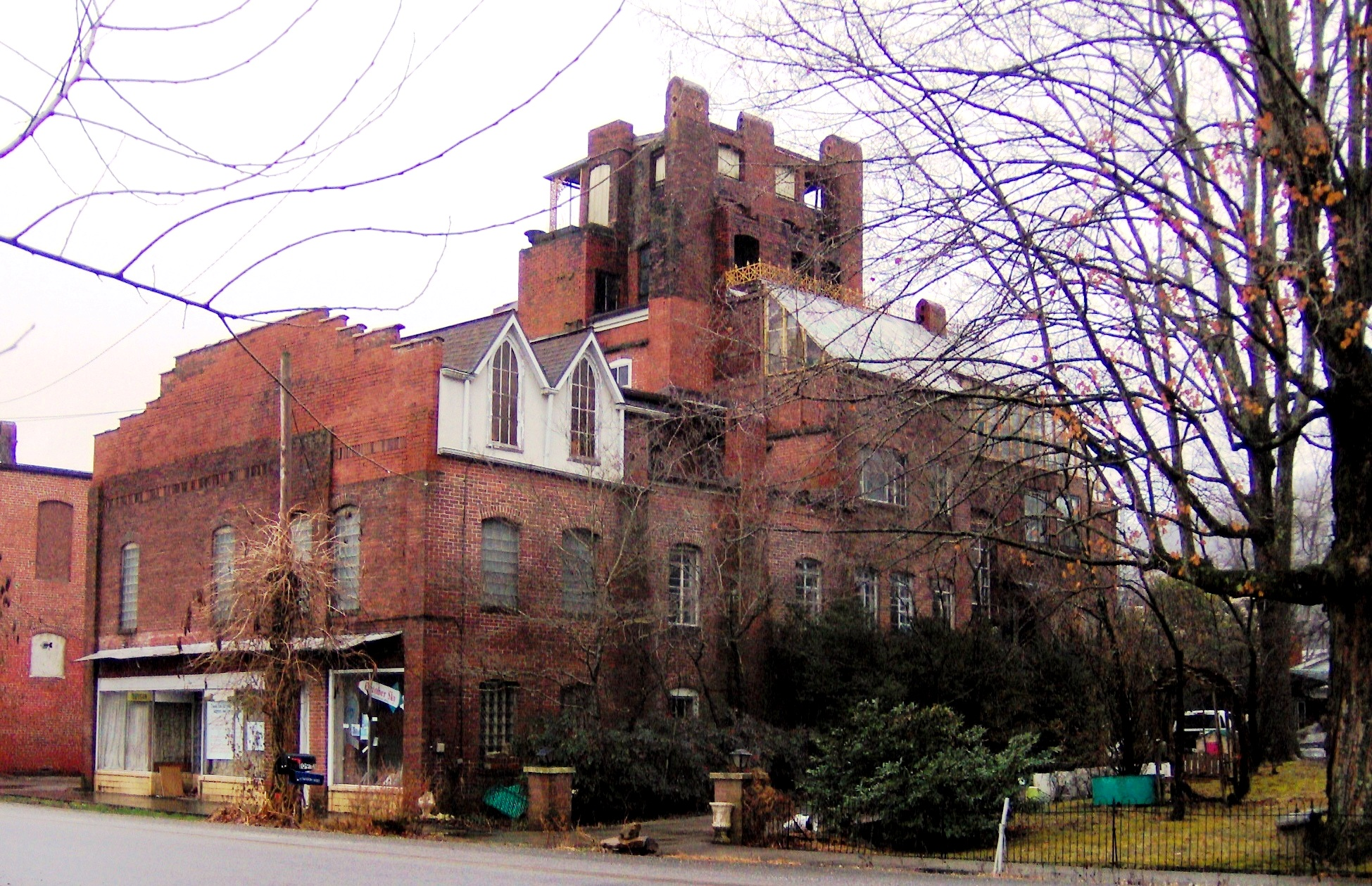 The Dr. Fred Stone Hospital in Oliver Springs, Tennessee, USA. Originally a small clinic, this structure was expanded piecemeal in various phases by Dr. Fred Stone (1887-1976), a Tri-County area physician. Special thanks to property owner Charles Tichy for showing me around this site and adjacent sites.